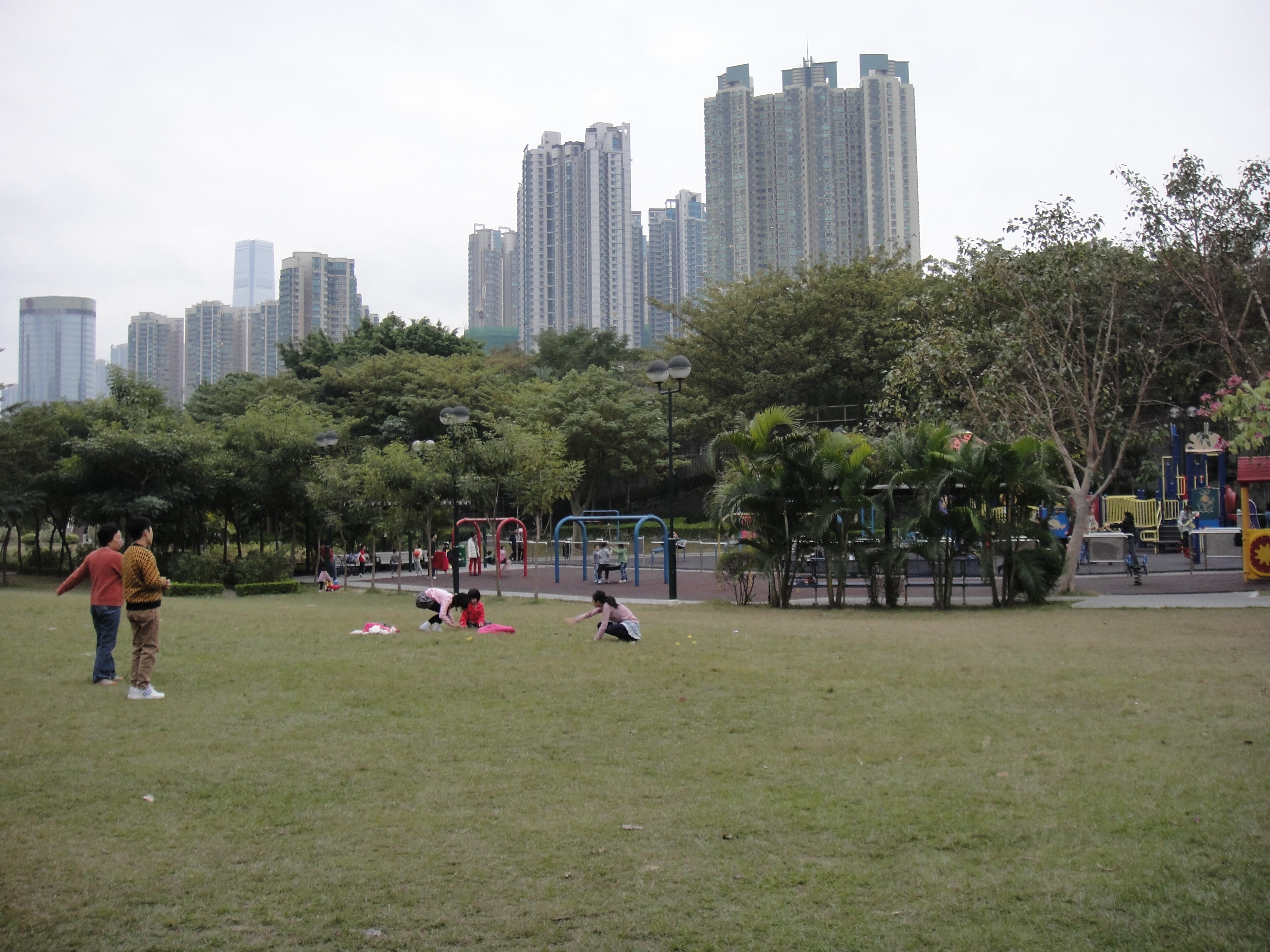 Nam_Cheung_Park View